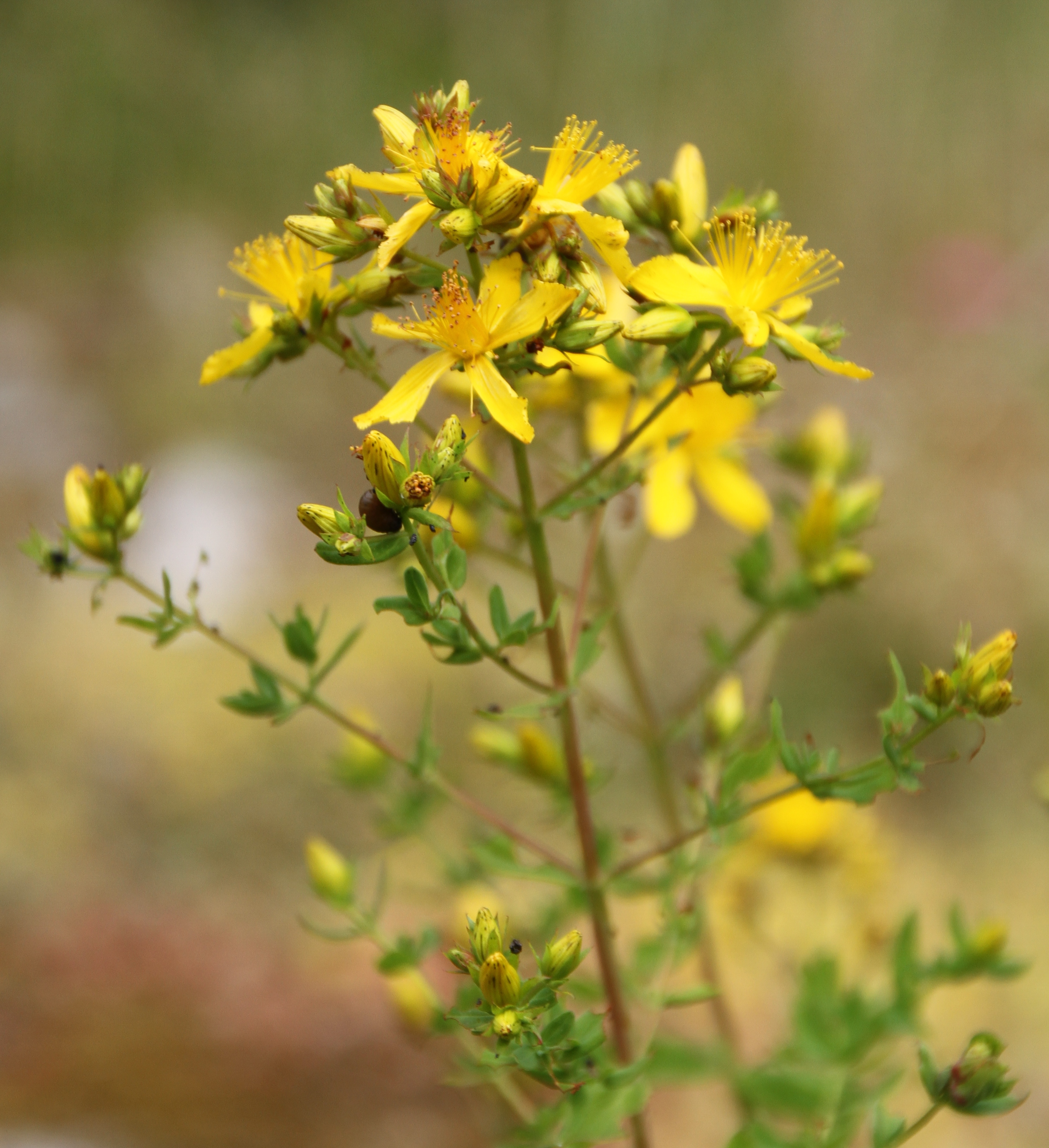 Hypericum maculatum flowering in Munkedal, western Sweden